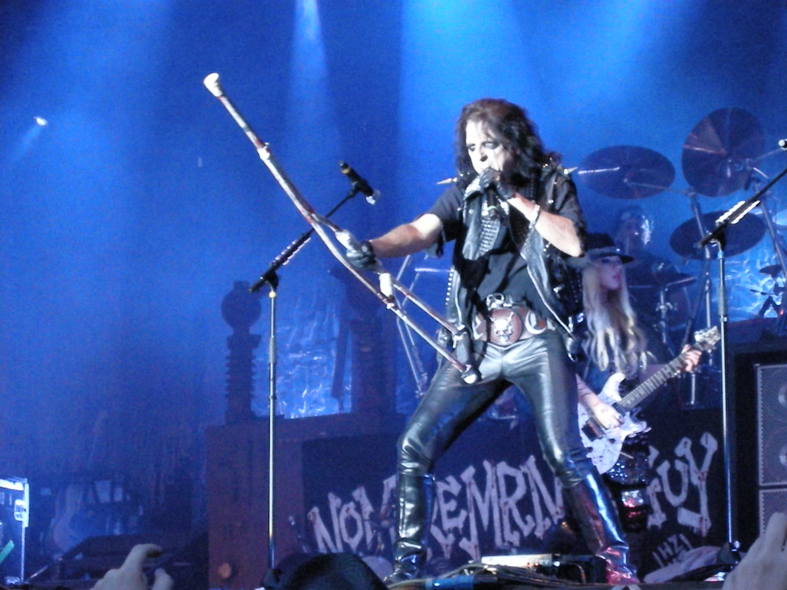 Alice Cooper band performing at Skogsröjet, Rejmyre 2012